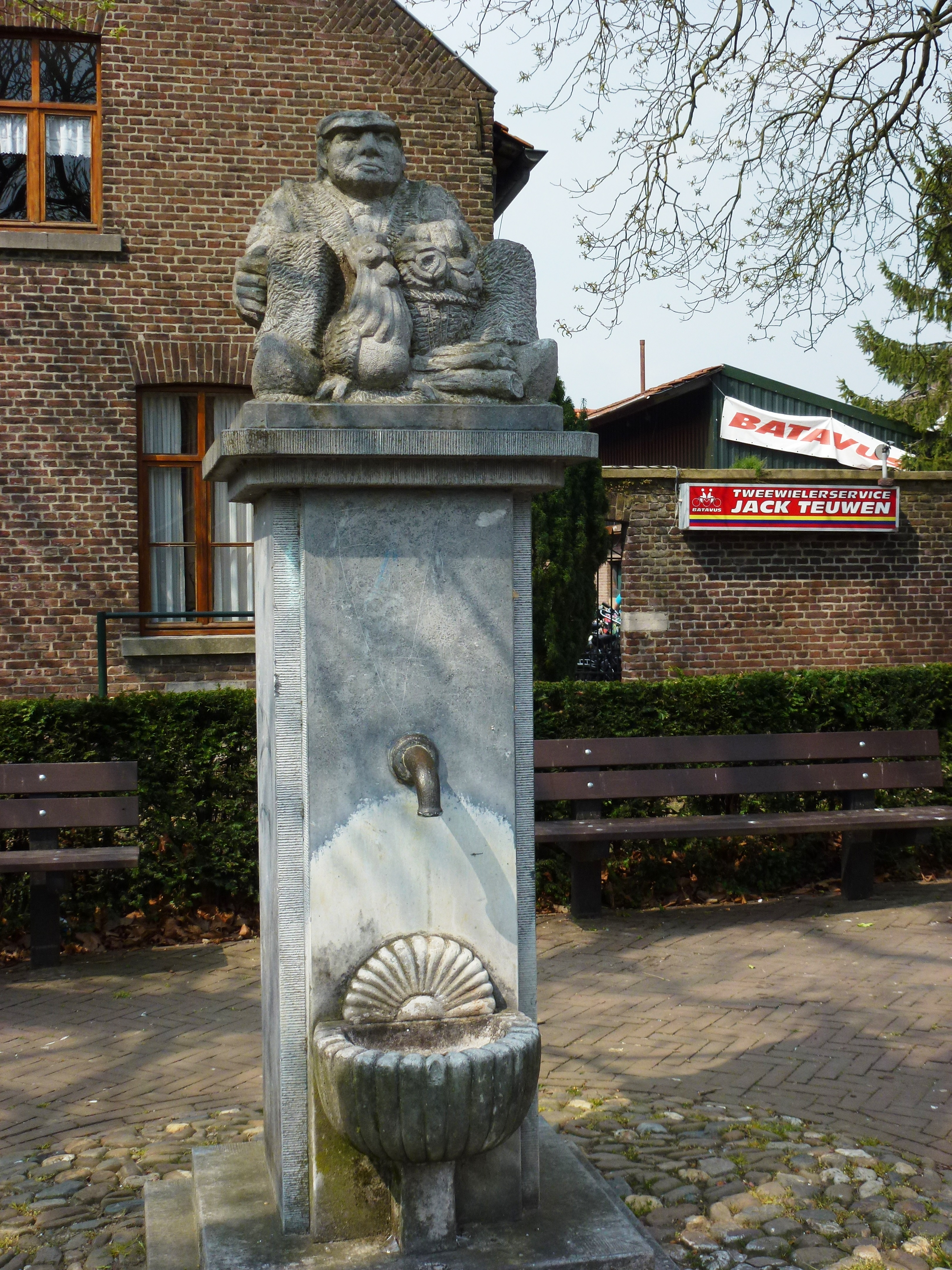 Merum (Roermond) fontein met sculptuur, hoofdstraat